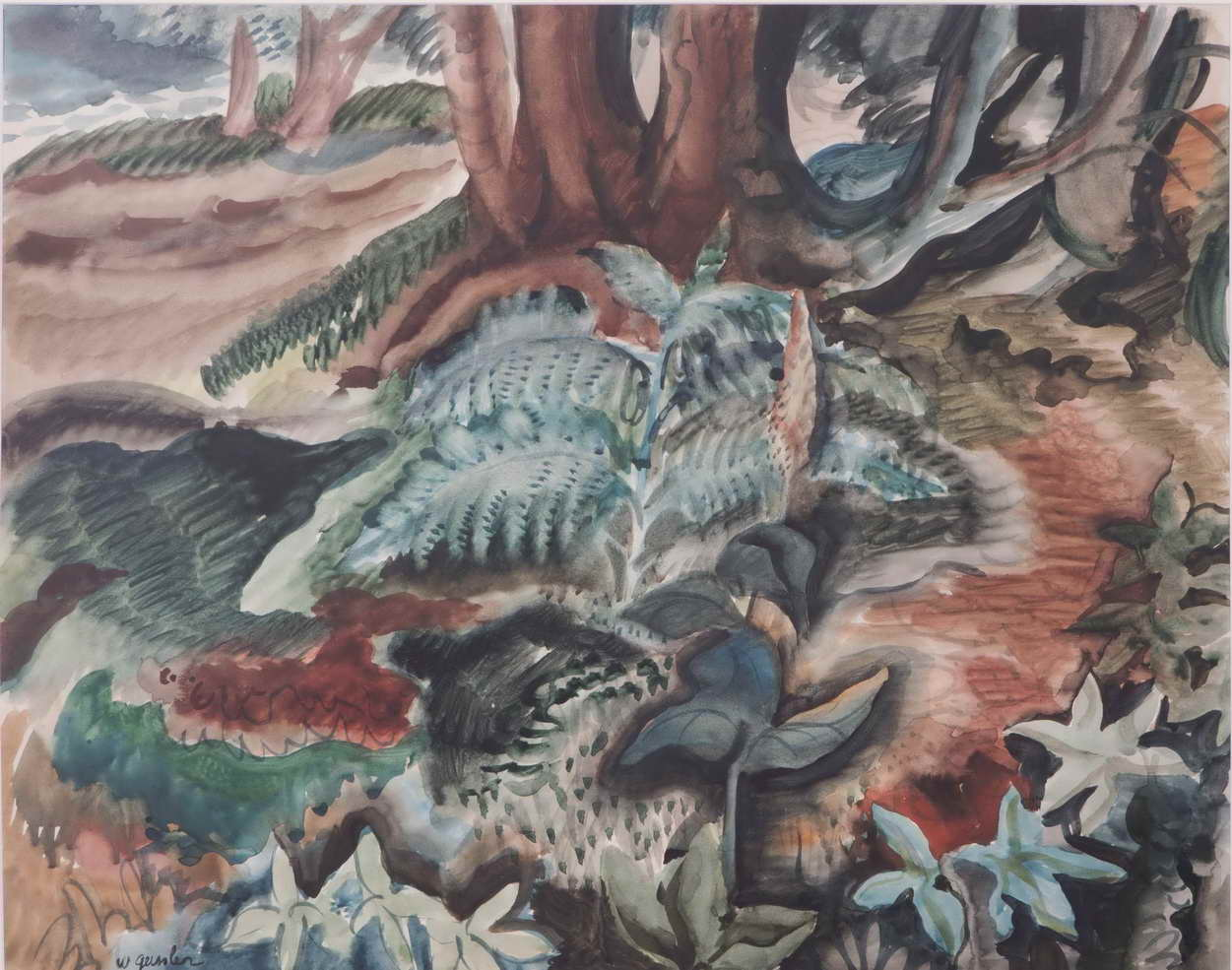 Ferns and undergrowth in wood